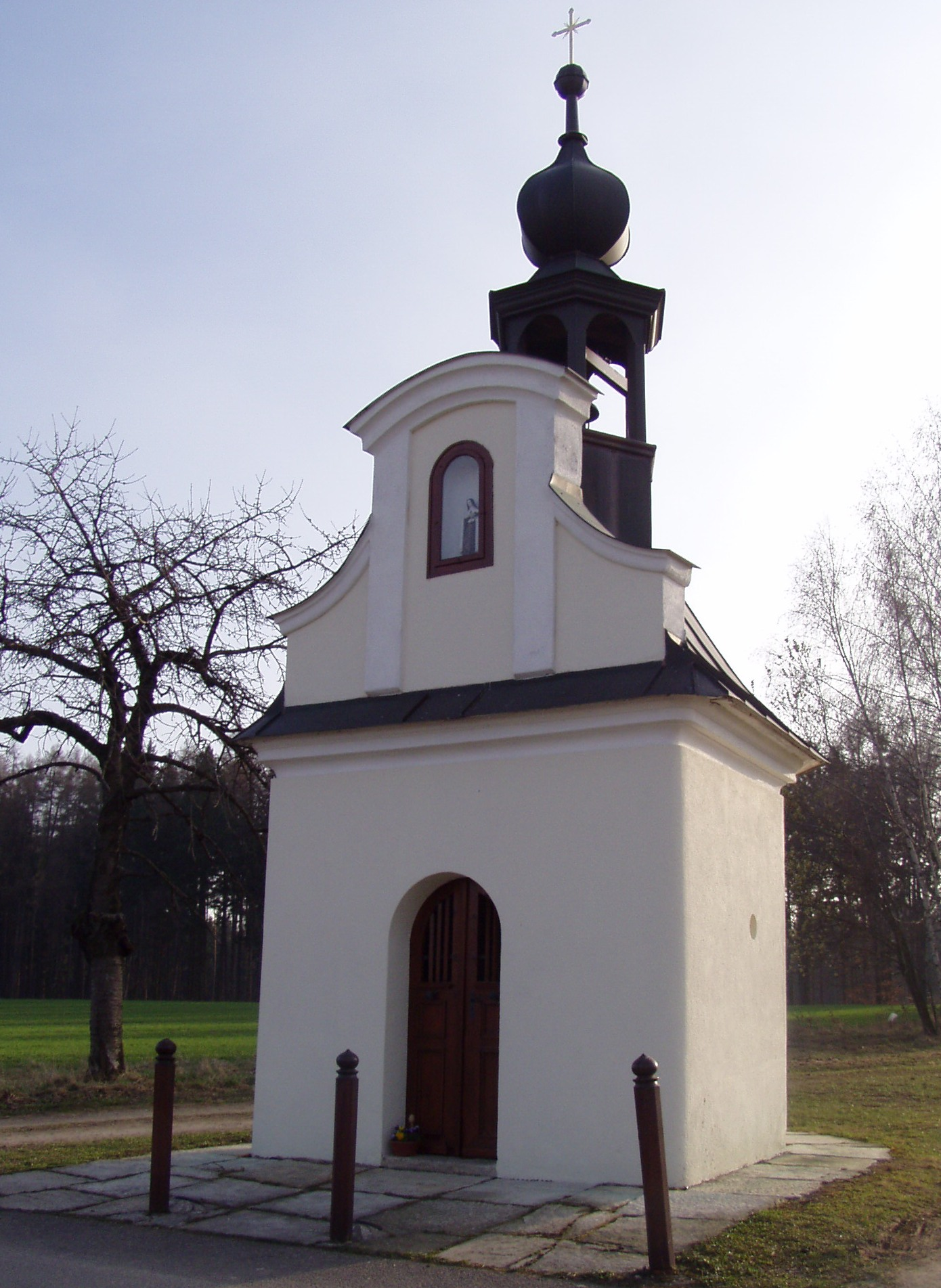 Lhotky - Chapel of Holy Trinity1